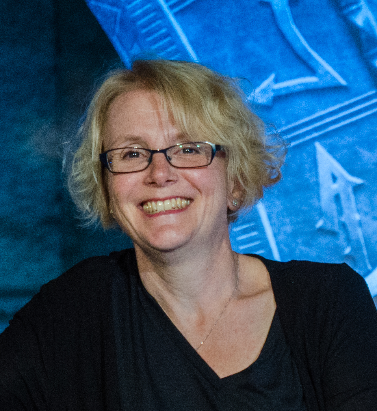 Sally & Sabine [1]